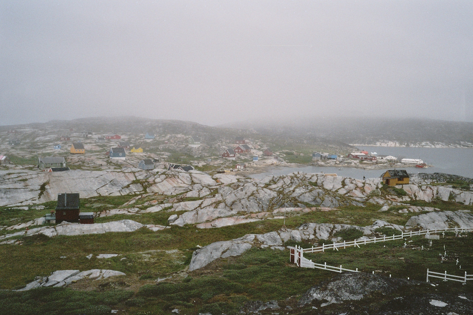 Oqaatsut (also named Rodebay), Greenland